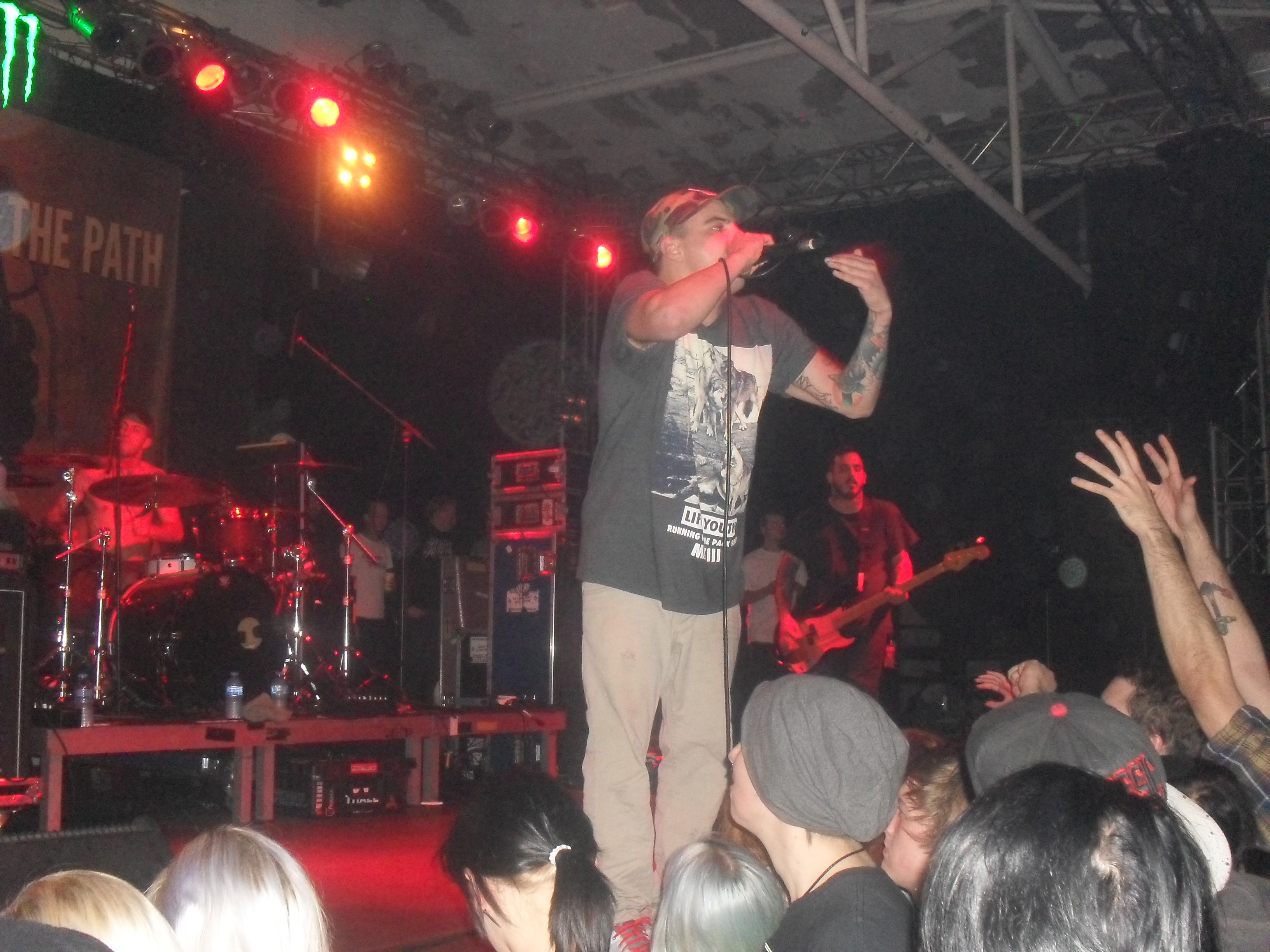 Stray from the Path in Cologne (2013)